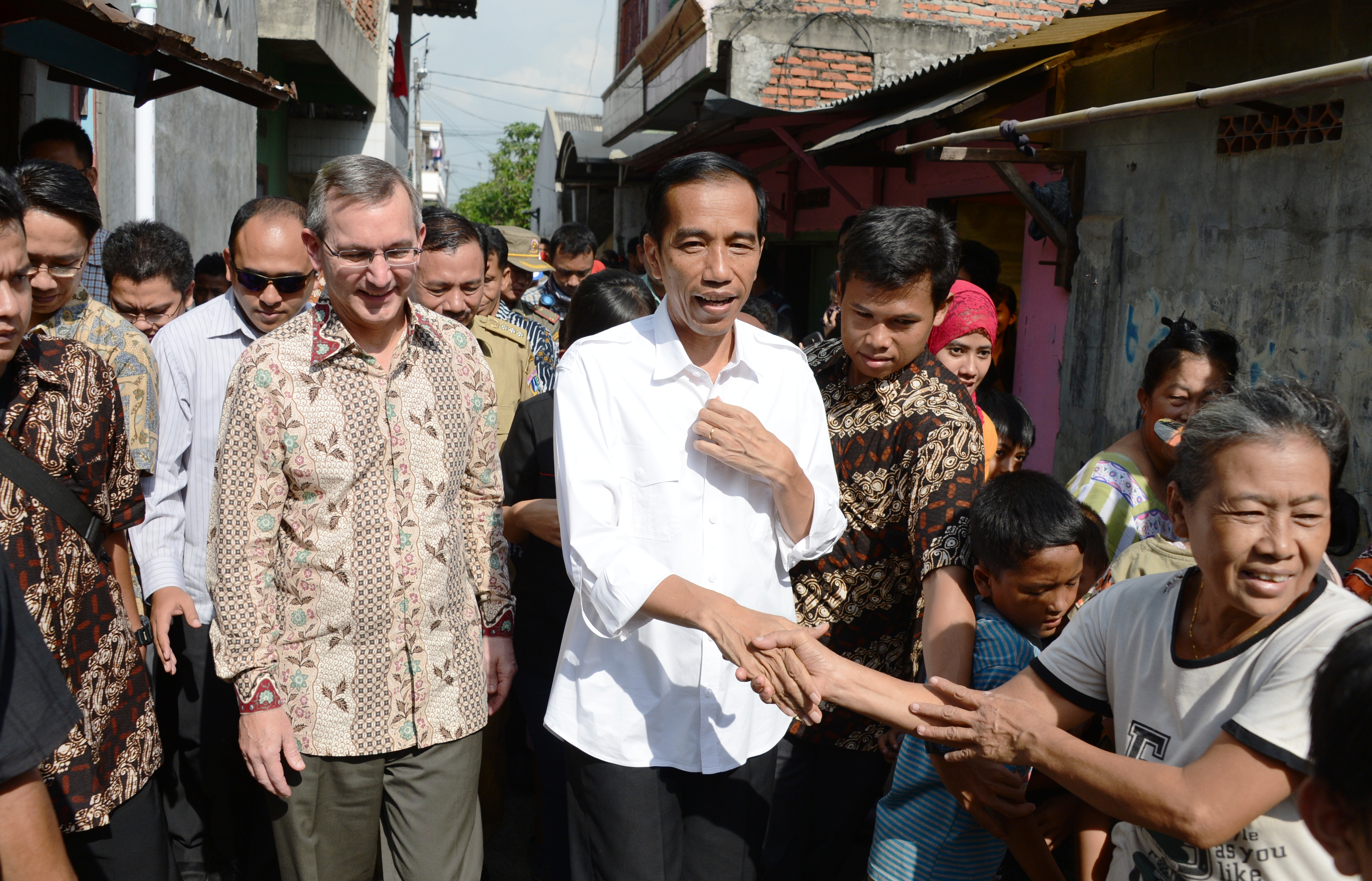 Ambassador Marciel Joins Governor Joko Widodo for Kampung Visit